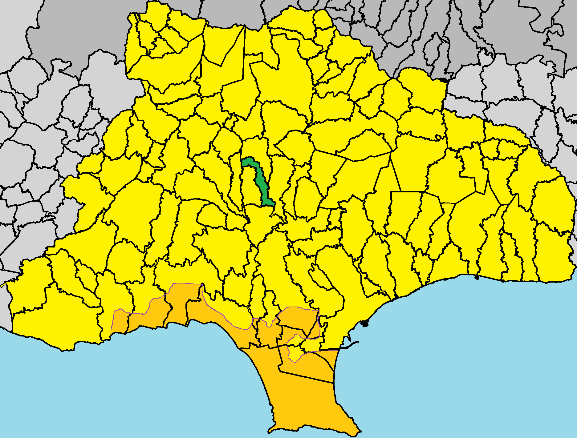 Doros, Cyprus in Limassol District.